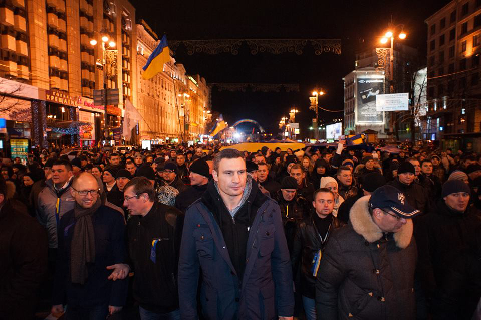 Vitali Klitschko, leader of the political party Ukrainian Democratic Alliance seen in the crowd on Khreshyatyk street in Kiev, Ukraine. 27 November 2013. Kyiv, Ukraine.